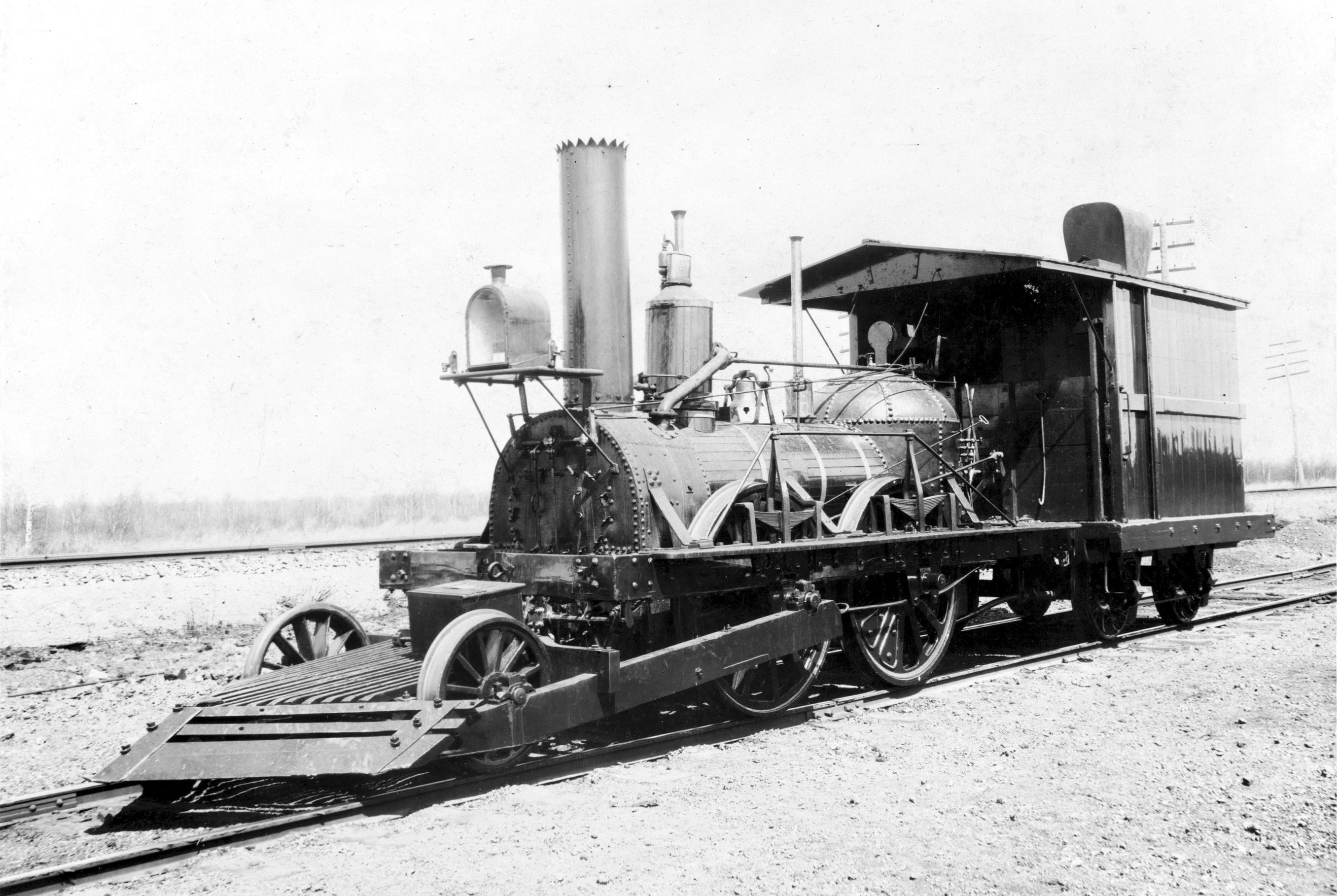 Title: The original "John Bull" Abstract/medium: 1 photographic print.